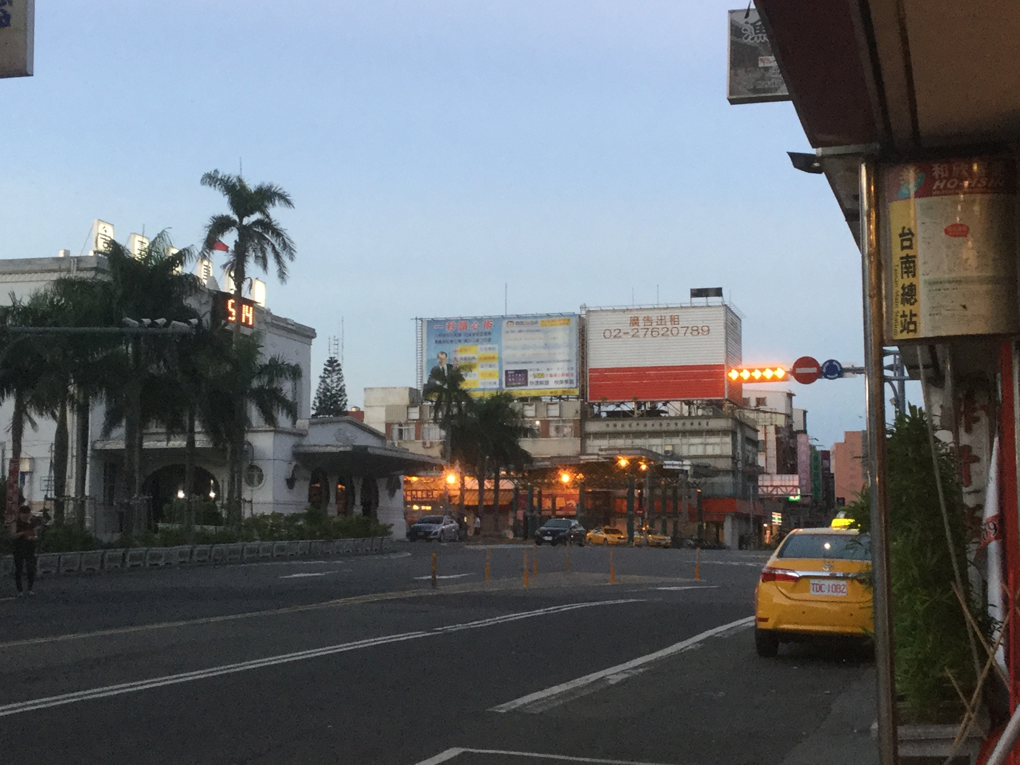 TRA Tainan Station and Ho-hsin Bus Tainan Main Station.